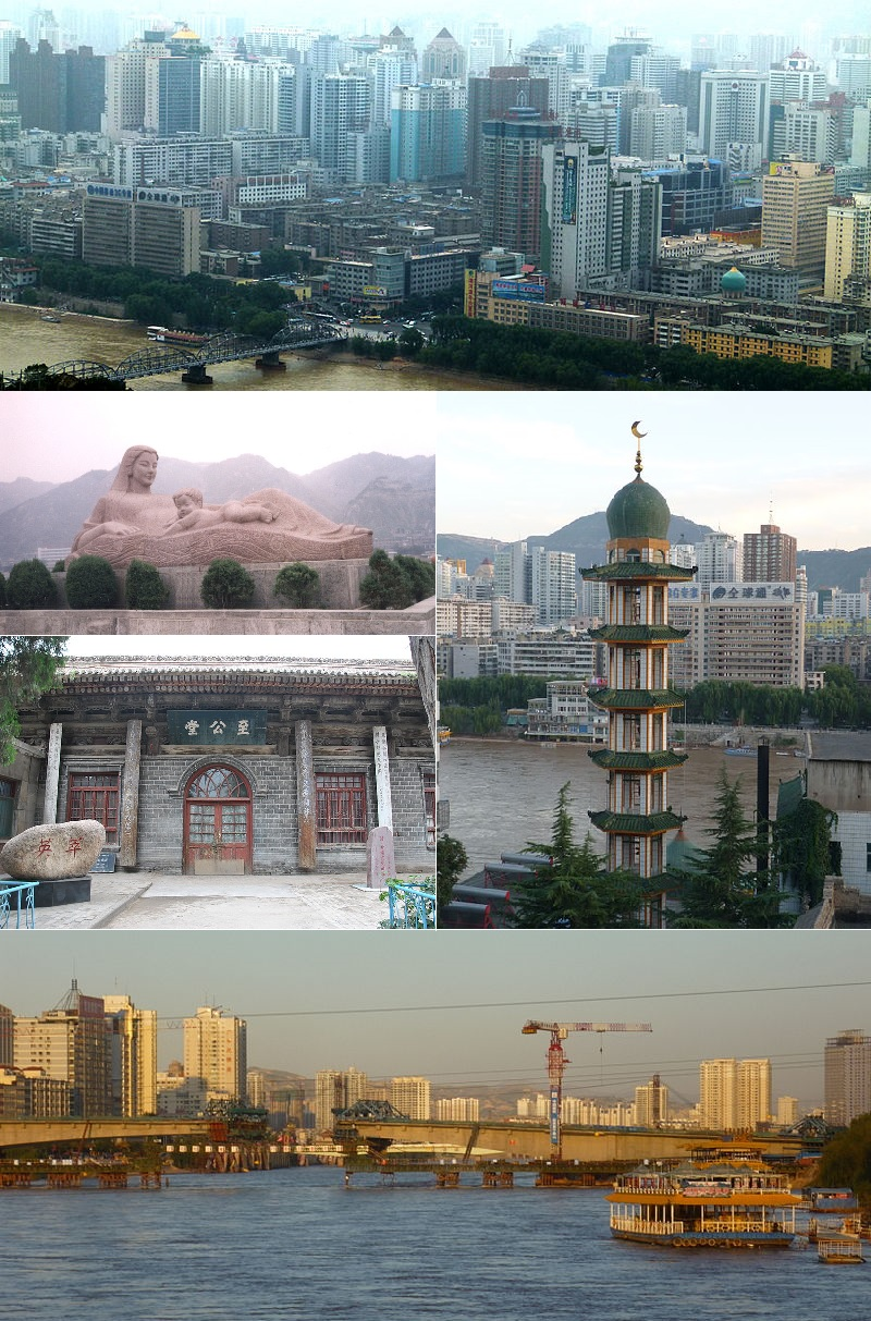 Montage of Lanzhou